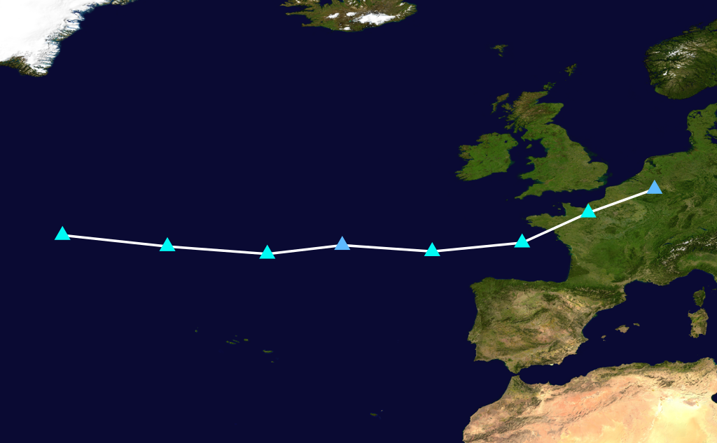 Track map of Storm Leon of the 2019-20 European windstorm season. The points show the location of the storm at 6-hour intervals. The colour represents the storm's maximum sustained wind speeds as classified in the Saffir–Simpson scale (see below), and the shape of the data points represent the nature of the storm, according to the legend below. Saffir–Simpson scale Tropical depression≤38 mph≤62 km/h Category 3111–129 mph178–208 km/h Tropical storm39–73 mph63–118 km/h Category 4130–156 mph209–251 km/h Category 174–95 mph119–153 km/h Category 5≥157 mph≥252 km/h Category 296–110 mph154–177 km/h Unknown Storm type Tropical cyclone Subtropical cyclone Extratropical cyclone / Remnant low / Tropical disturbance / Monsoon depression